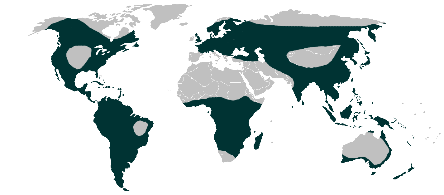 Distribution map